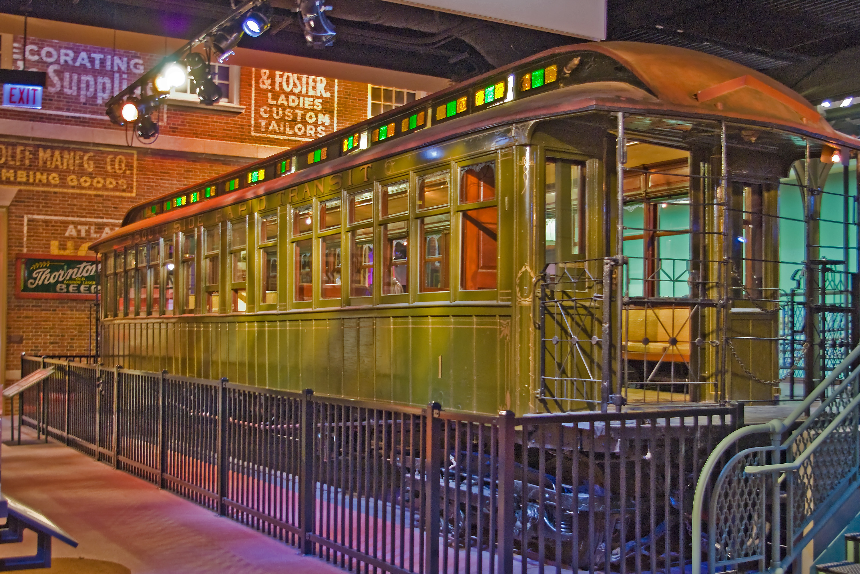 South Side Elevated Railroad car 1, built 1892. On display at the Chicago History Museum.